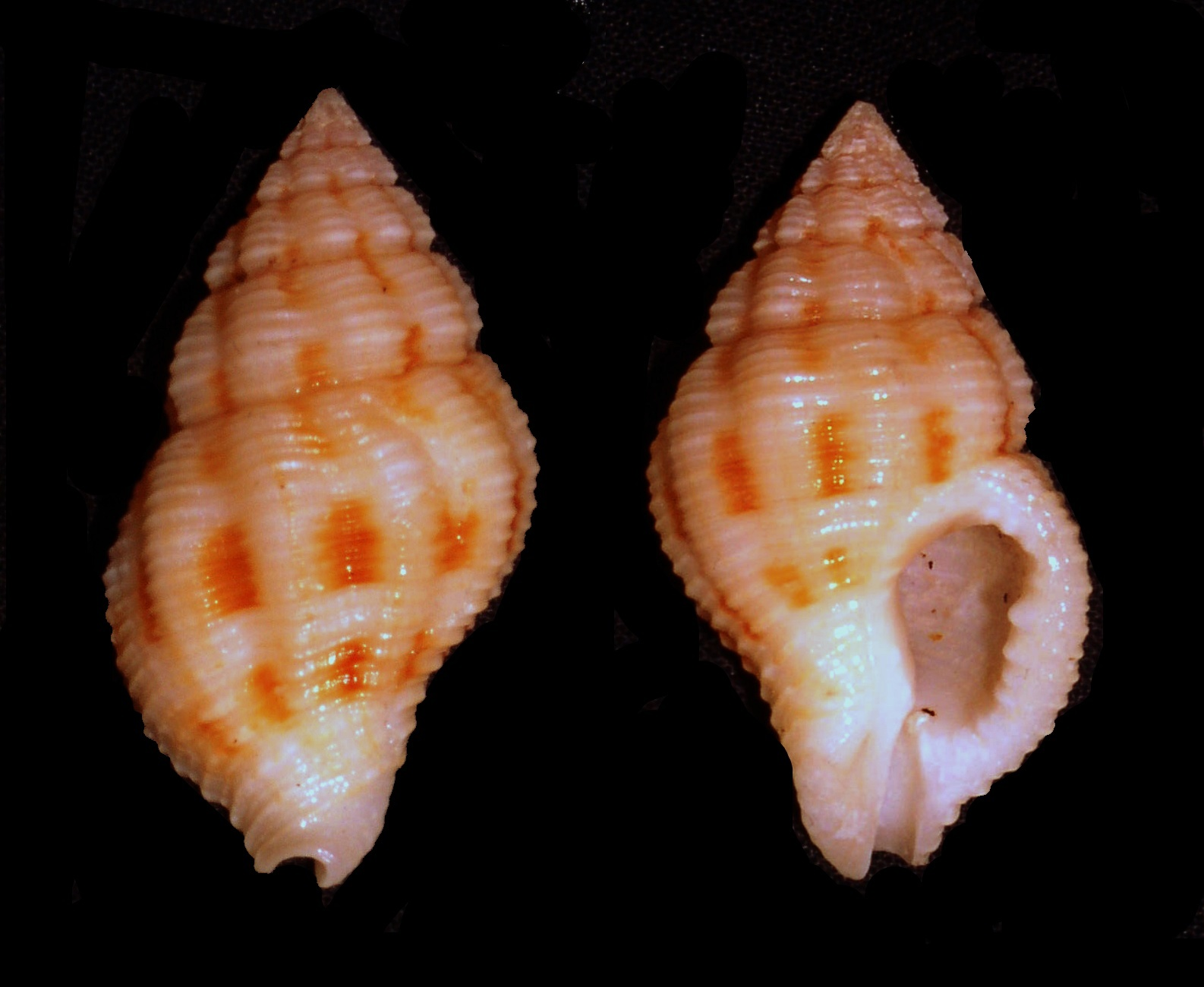 Peristernia nassatula from Mindanao, the Philippines